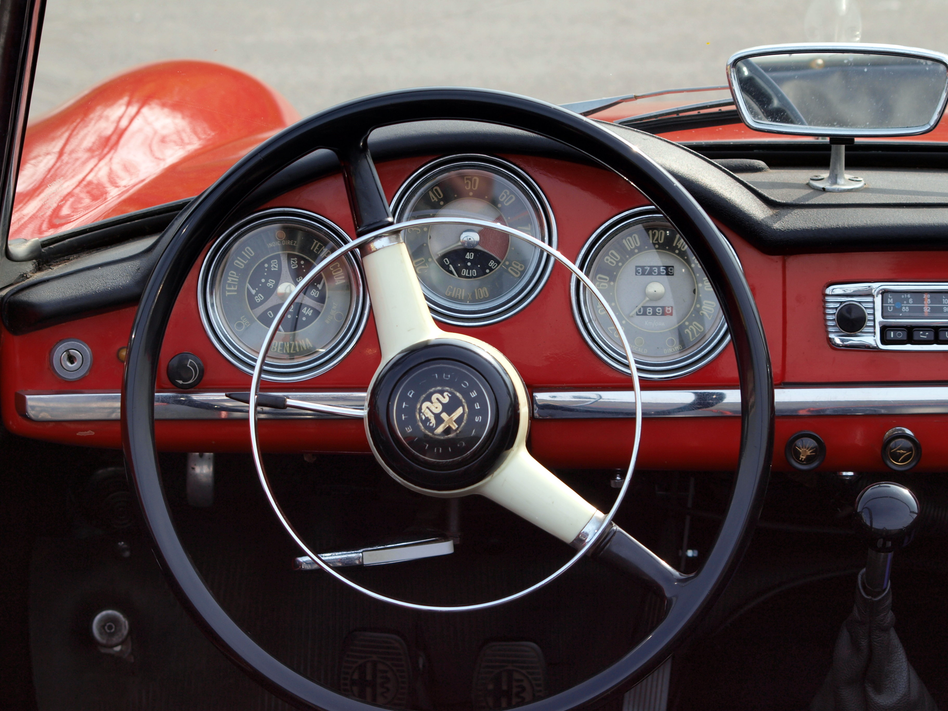 Cars and motorcycles photographed at the Voorschotense Oldtimer Vereniging Show, Valkenburgse meer, The Netherlands. OLYMPUS DIGITAL CAMERA